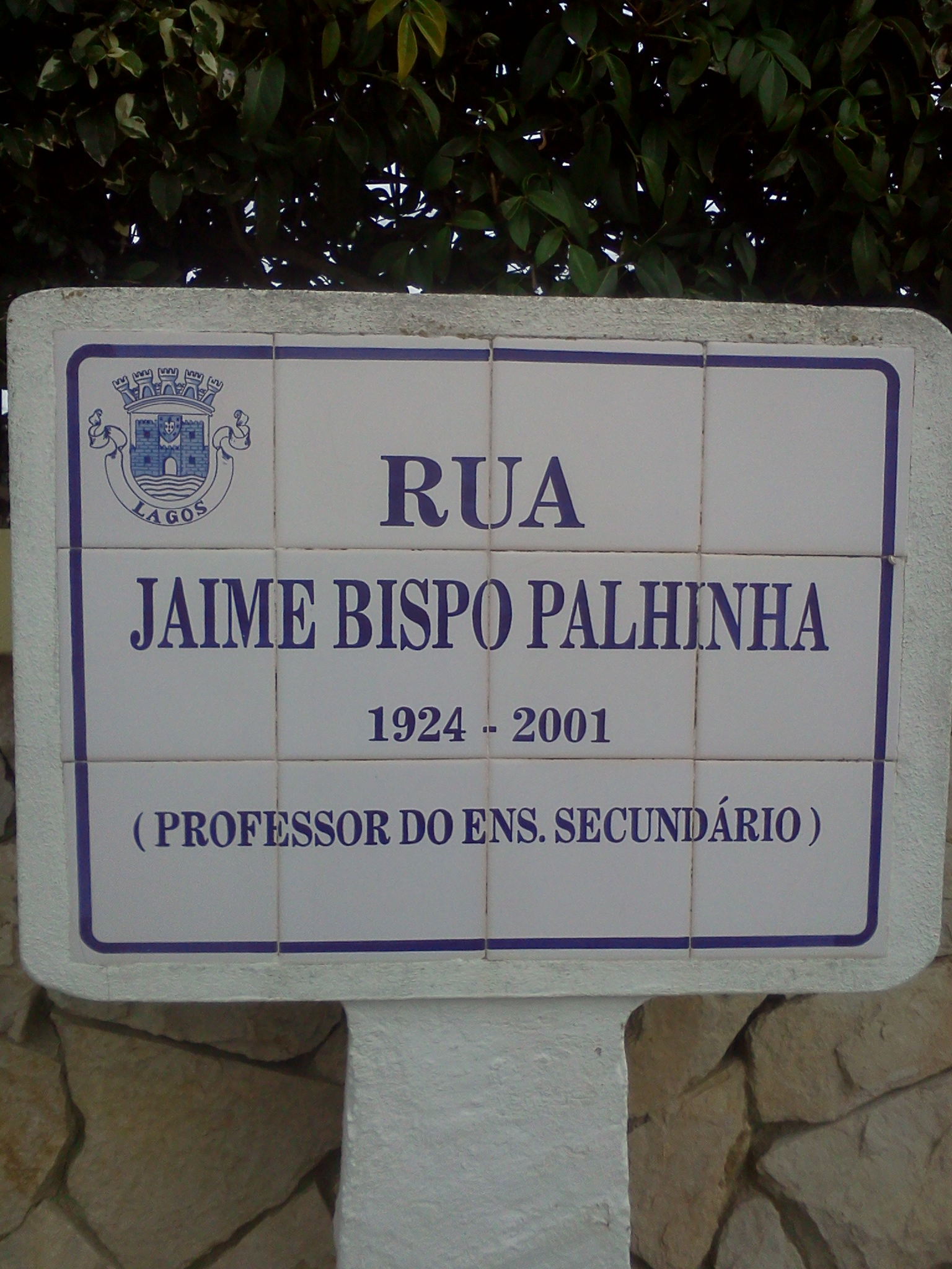 Street sign of Rua Jaime Bispo Palhinha, in the city of Lagos, in southern Portugal.